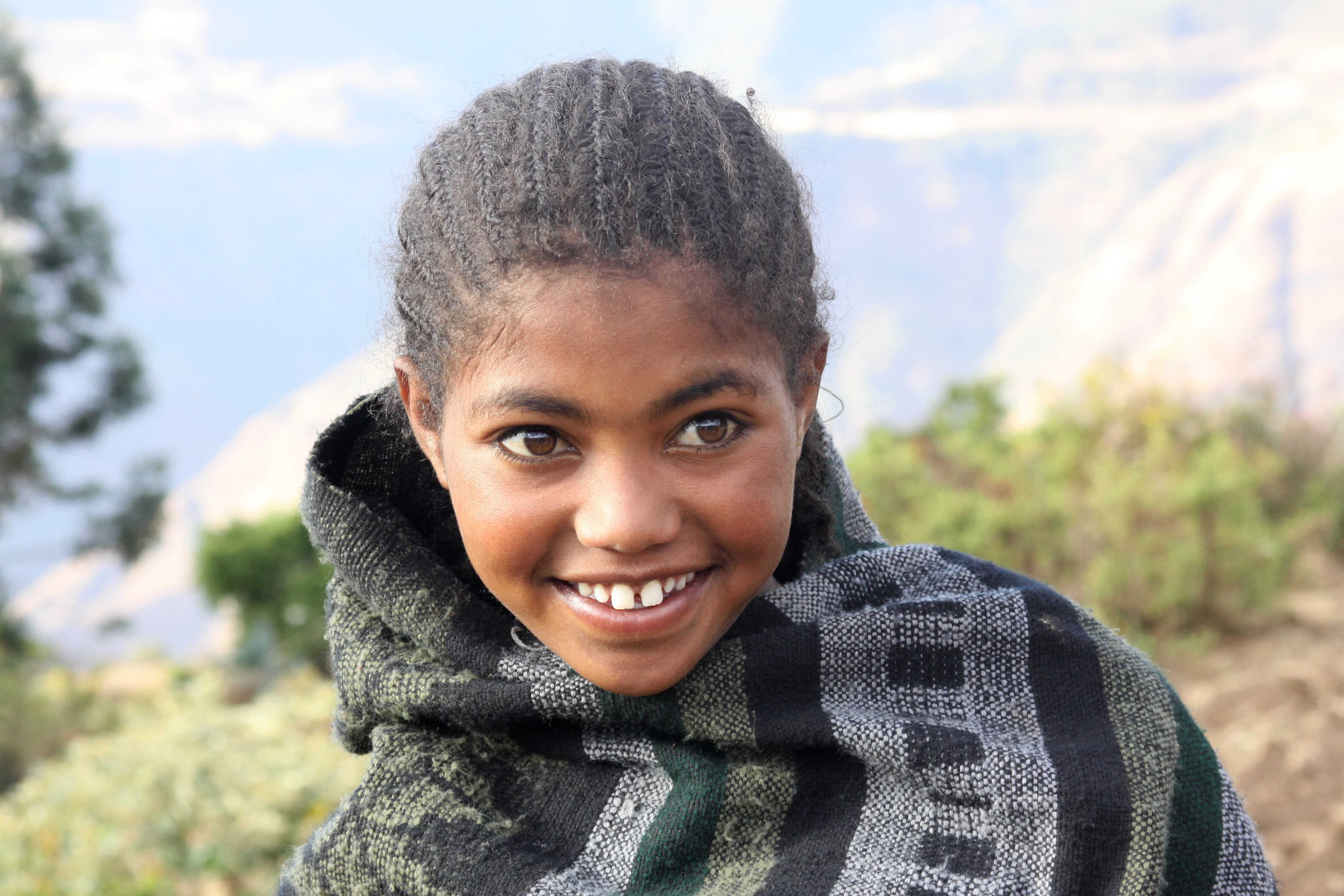 Young Ethiopian woman